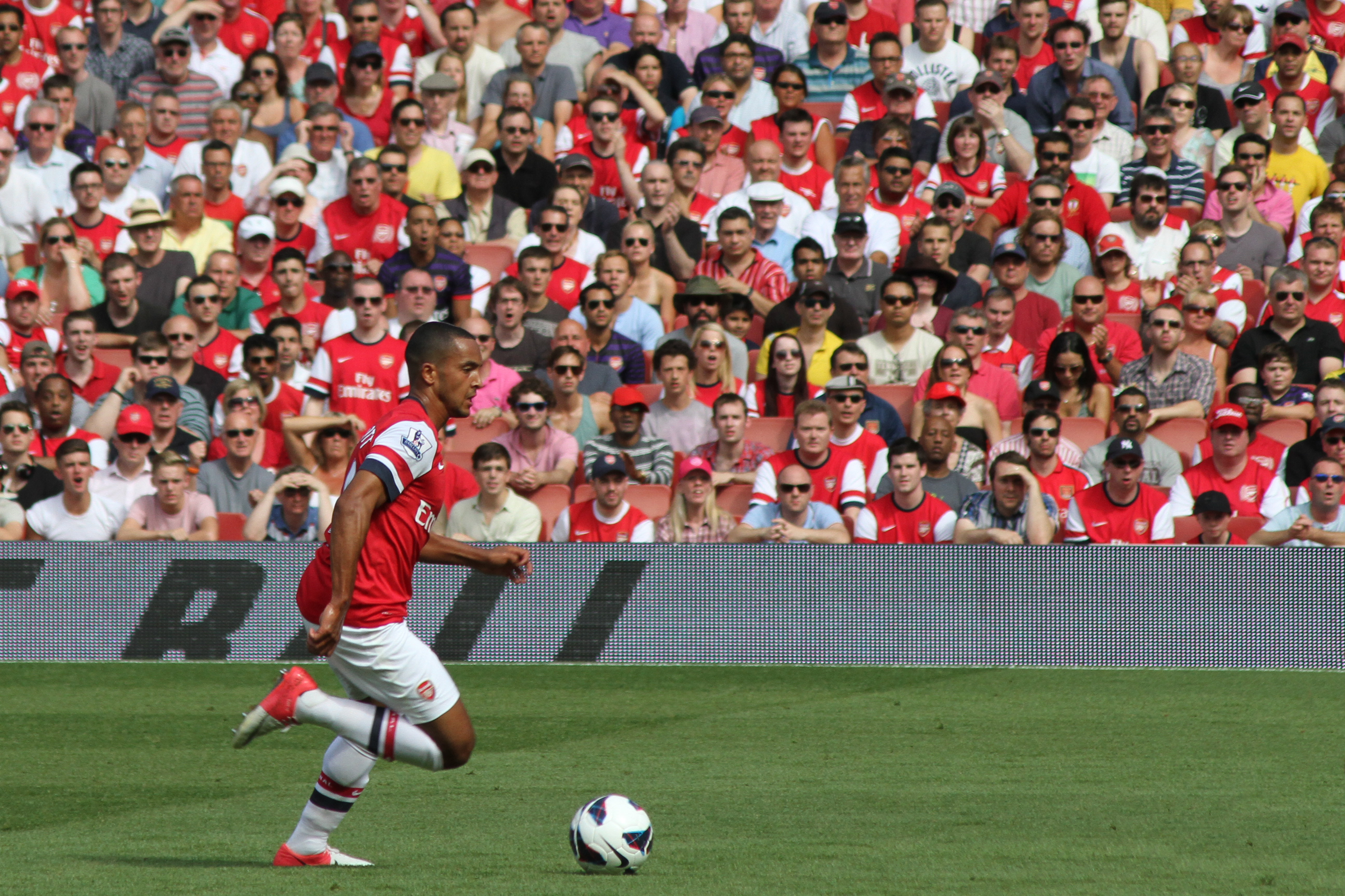 Theo Walcott